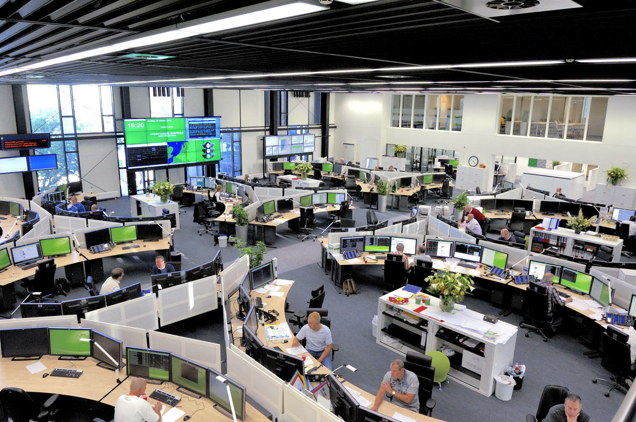 Interior OCCR